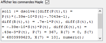 Afficher commande Maple